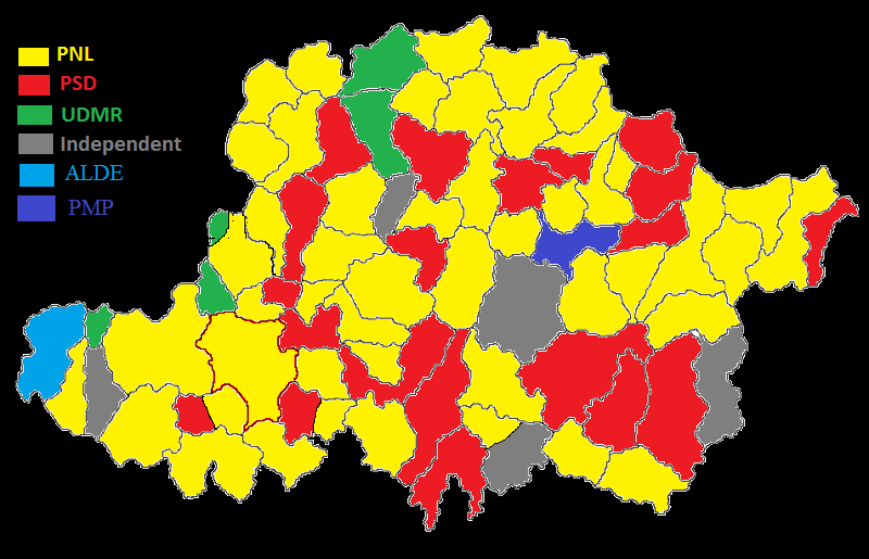 Local elections in Arad County, in 2016.